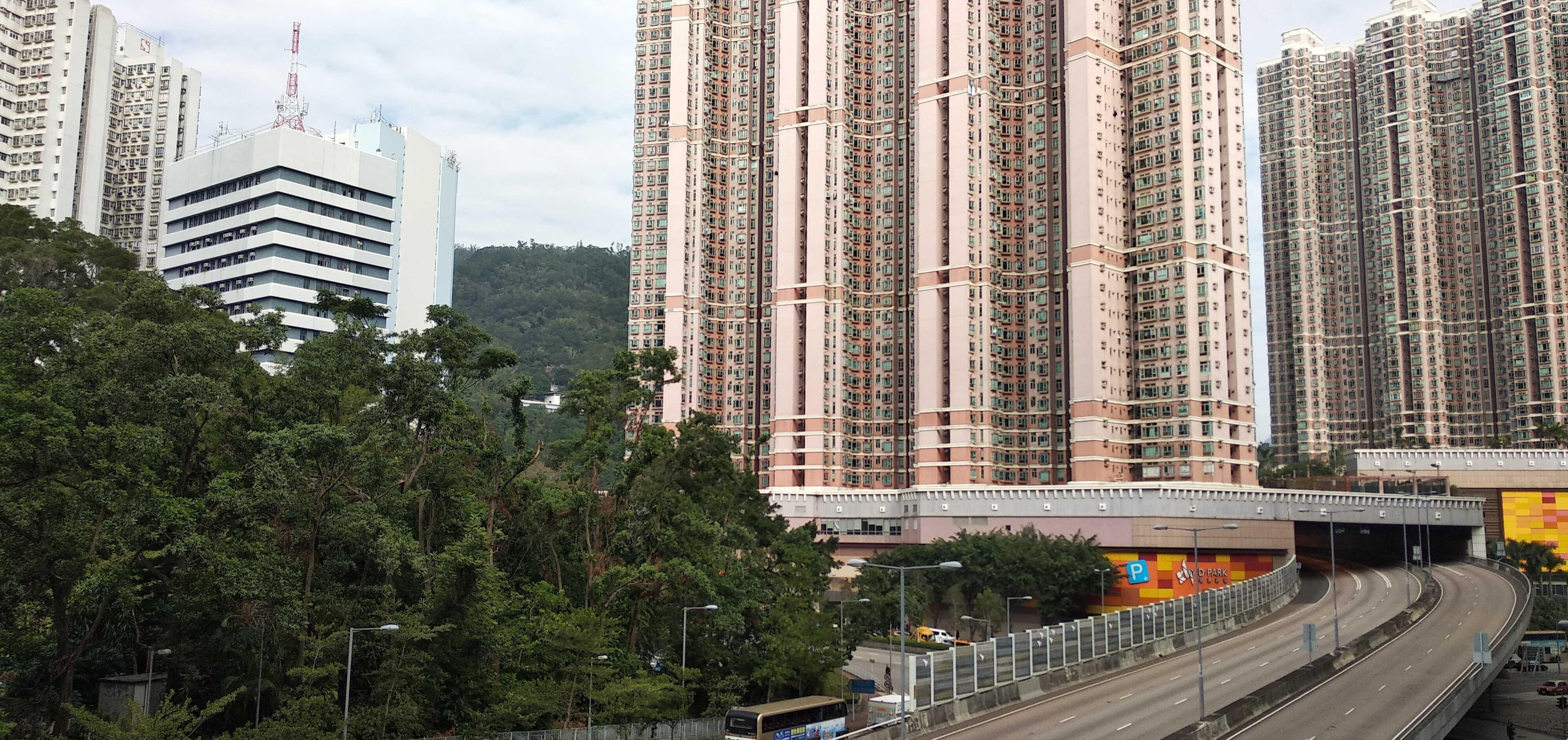 Cheung Pei Shan Road near Discovery Park.